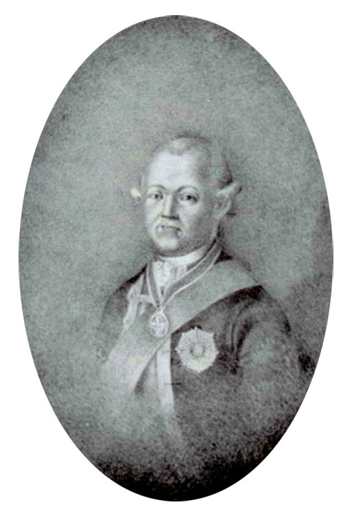 Lieutenant-General of the Russian Empire by Denis Chicherin.